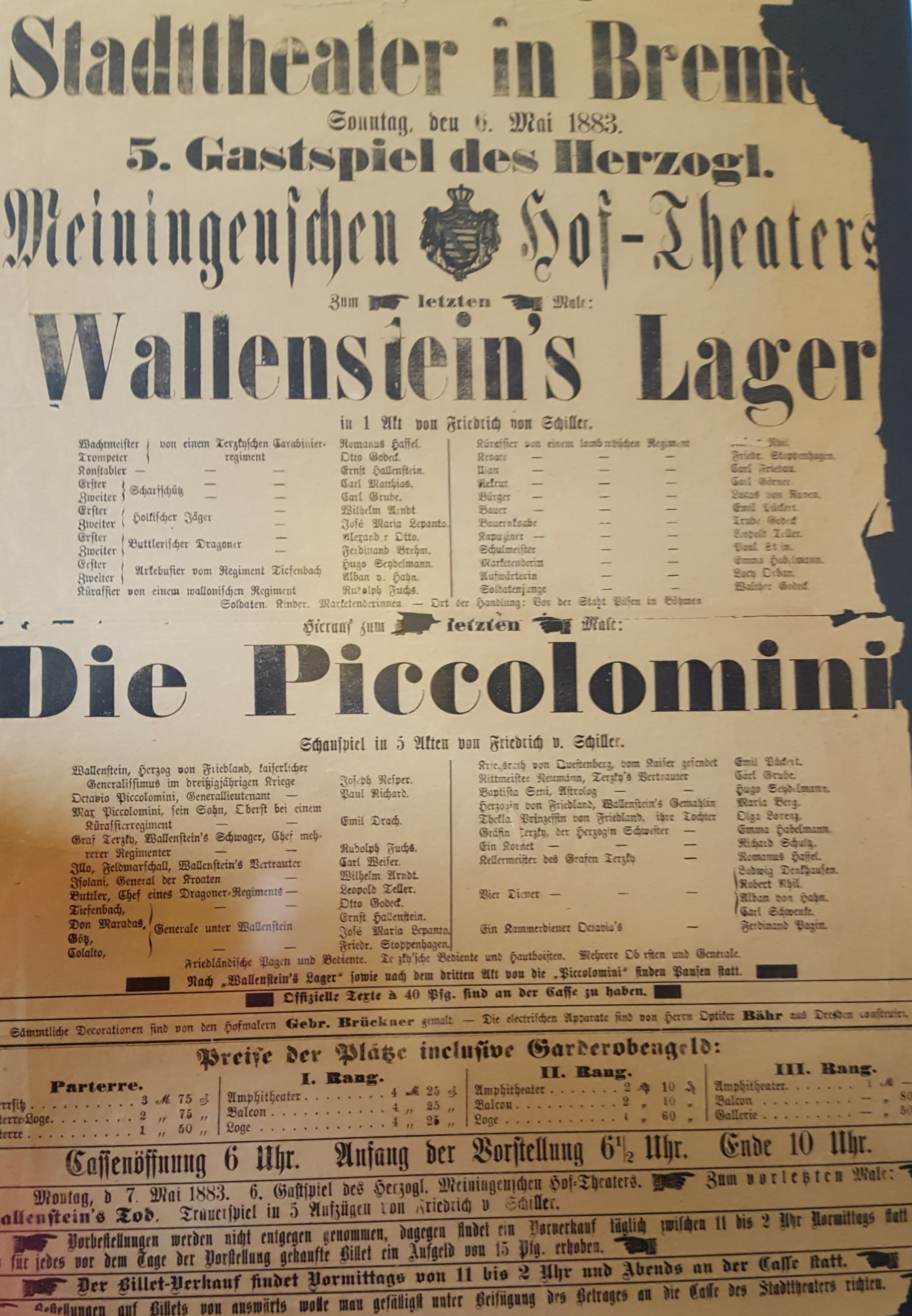 Playbill (guest performance of "Die Meininger" in Bremen, 1883)